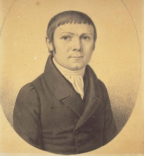 Portrait of Johann Christian Simon Handt, c. 1827.